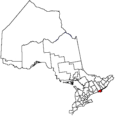 Prince Edward County, Ontario